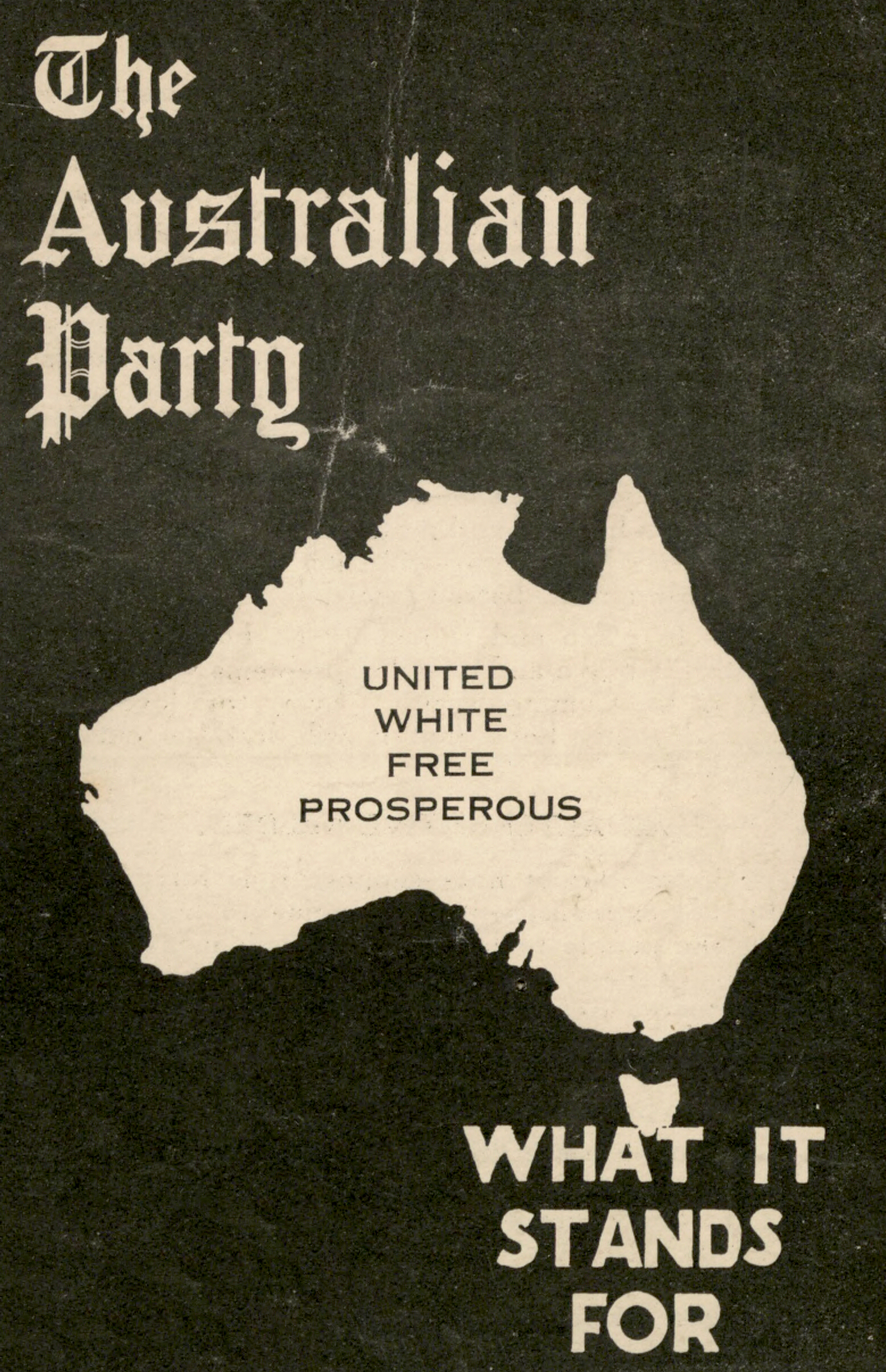 Cover page of the manifesto of the Australian Party, published 1930.